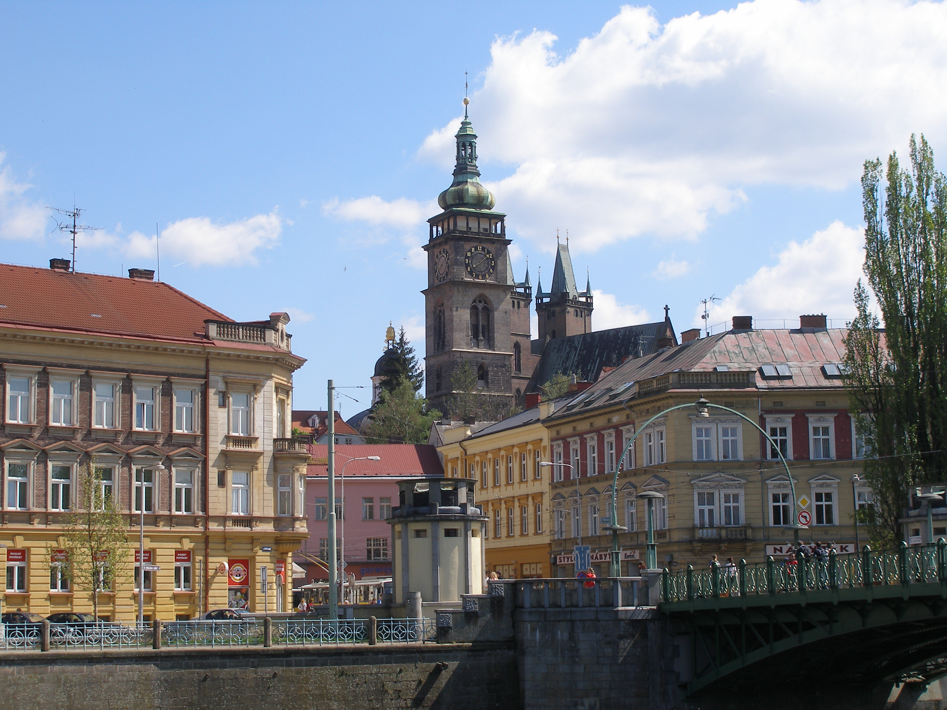 Centrum, Hradec Králové, from banks of labe